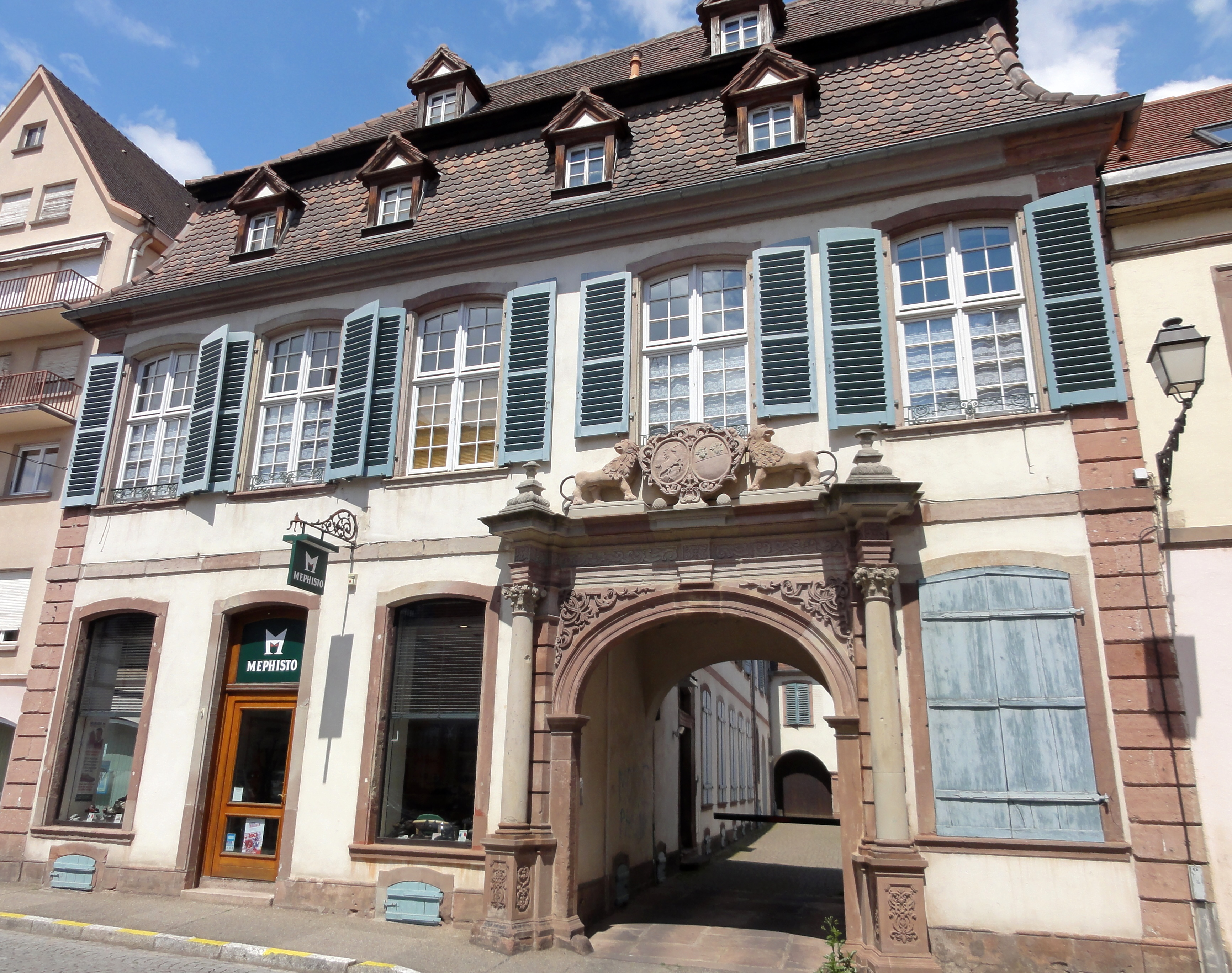 Alsace, Bas-Rhin, Sélestat, Ancien Hôtel du Prêteur Royal, Hôtel Fels (XVIIIe), 4-6 rue Sainte-Barbe. It is indexed in the Base Mérimée, a database of architectural heritage maintained by the French Ministry of Culture, under the references PA00084986 and IA00124659 .